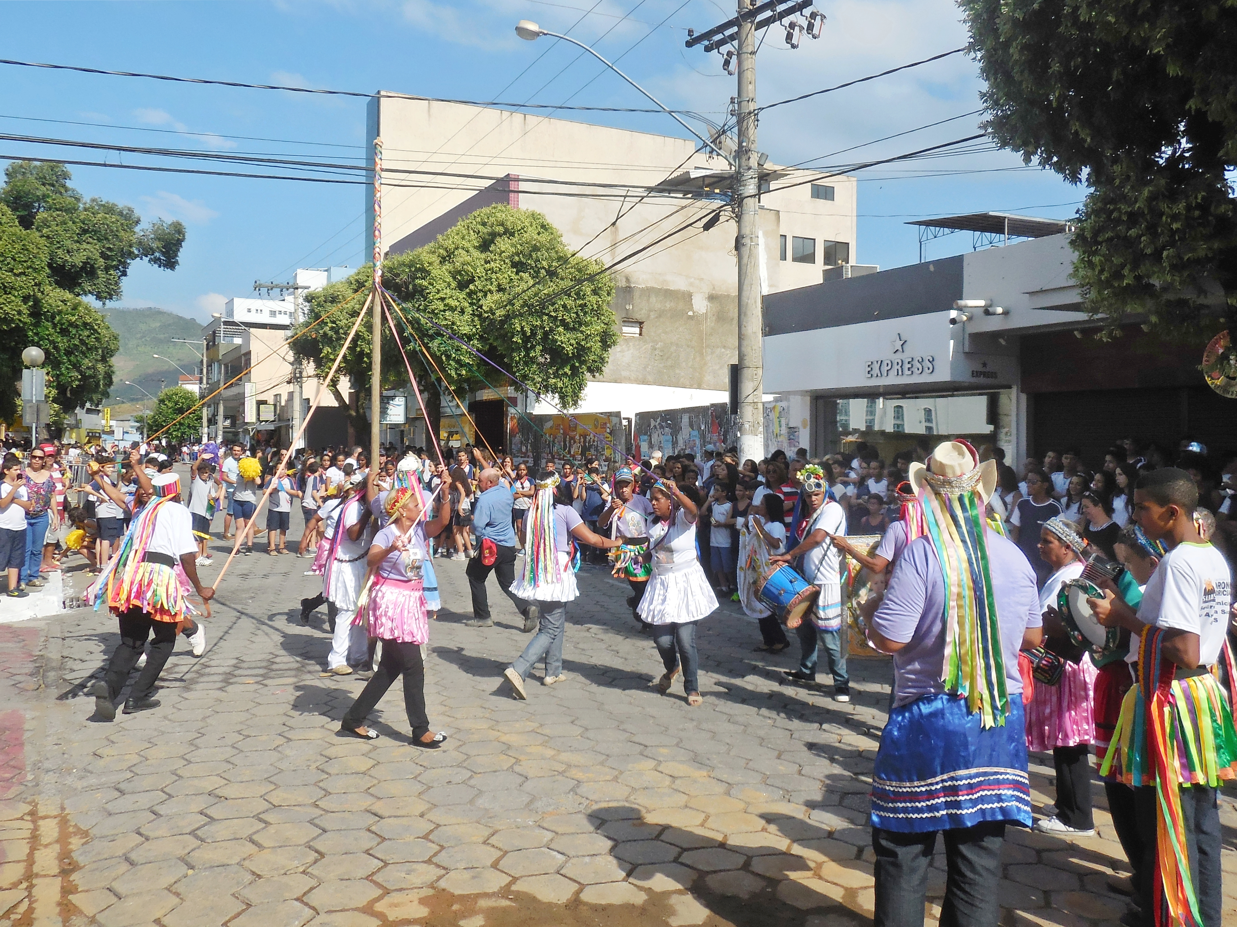 The Marujos dos Cocais during the passing of the olympics torch in Coronel Fabriciano, Minas Gerais, Brazil.